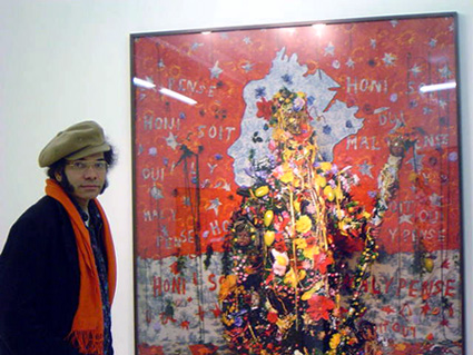 A photographic portrait of Hew Locke, next to his artwork Saturn from his series of photographs How Do You Want Me?